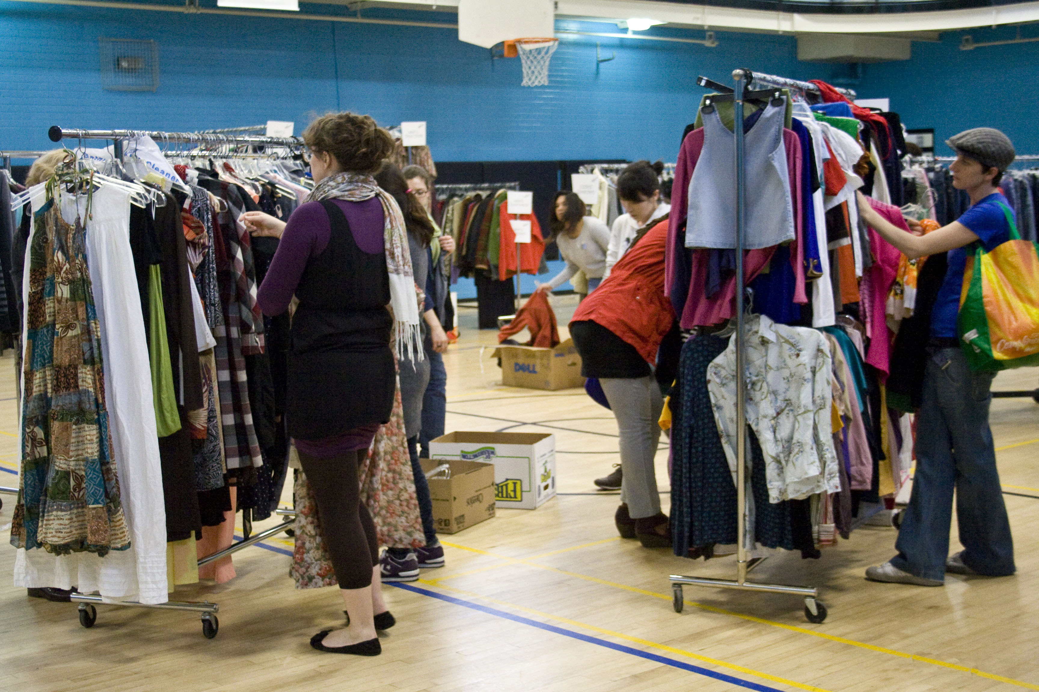 A clothing swap in a gym in Toronto, Ontario, Canada.